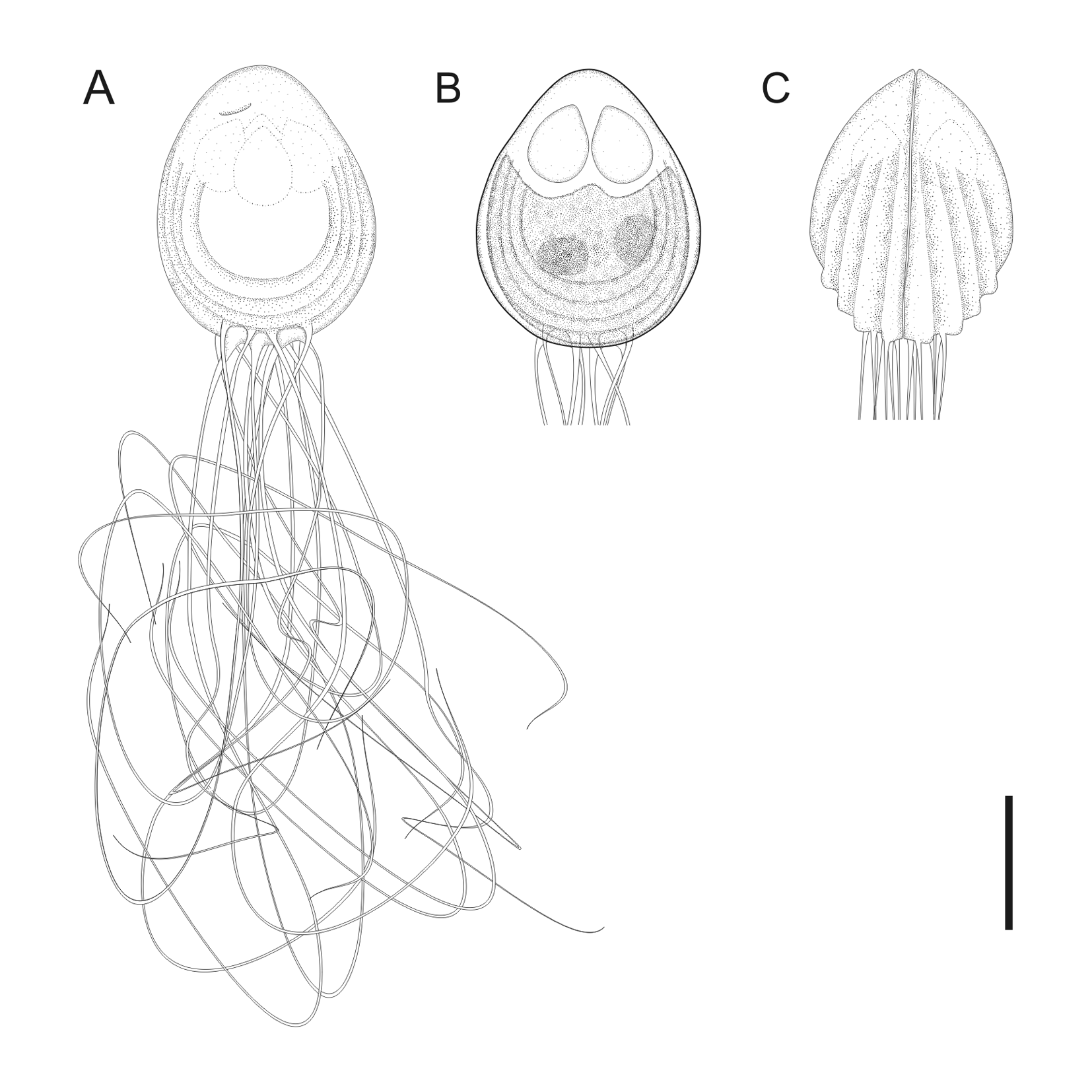 Figure 2 of paper Schematic drawing a myxospore of Chloromyxum atlantoraji n. sp. from the gall bladder of the spotback skate, Atlantoraja castelnaui (Miranda Ribeiro) (Arhynchobatidae, Rajiformes). (A) Valvular view of a mature myxospore. (B) Valvular view of a mature spore showing a single sporoplasm bearing two nuclei. (C) Sutural view of a mature myxospore, caudal filamentous projections not fully drawn. Scale bars: A, B, C = 5 μm.